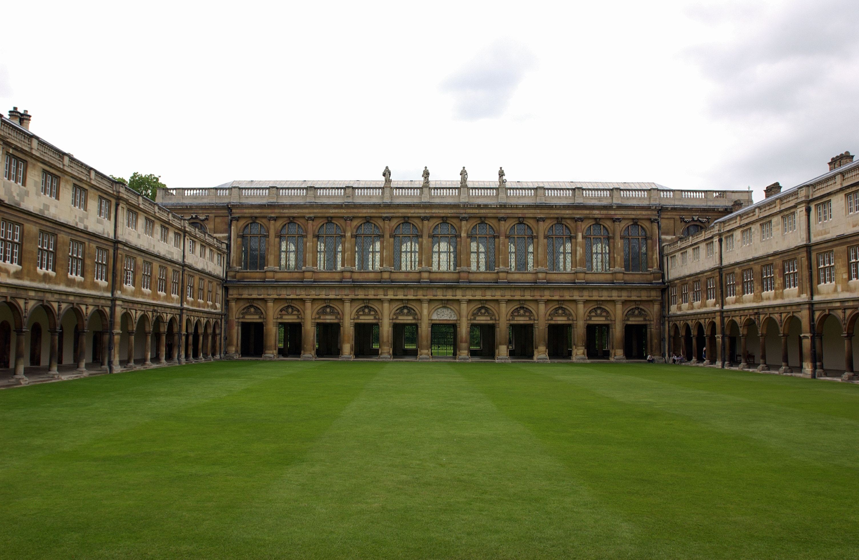 Trinity College, Nevile's Court and Wren Library